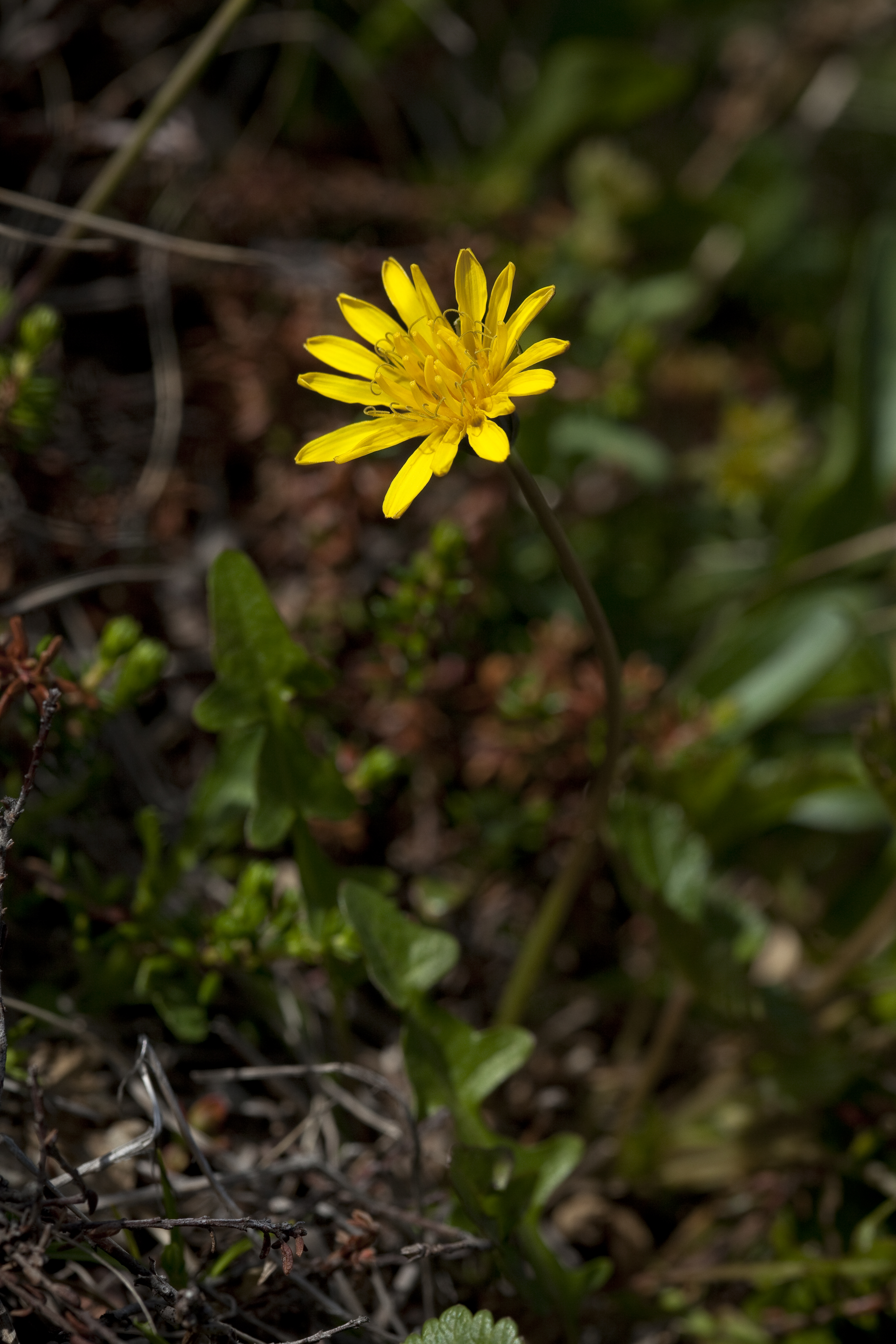 Kamchatka dandelion (Taraxacum kamtchaticum), Denali National Park and Preserve, AK, USA